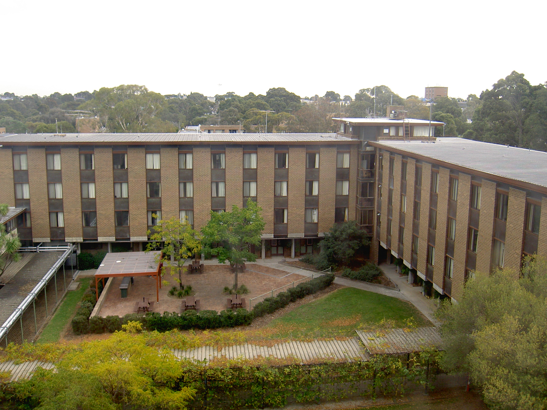 Farrer Hall, Monash University, taken by THE KING on 6/June/05 and hereby released into the public domain.